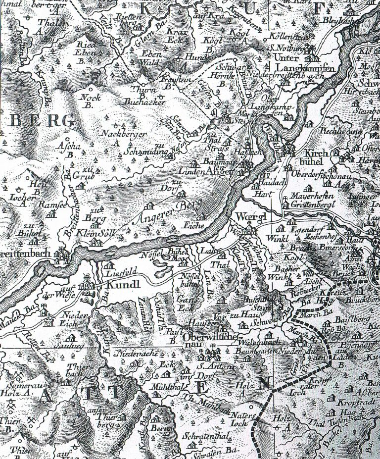 Map of Tyrol by Blasius Hueber (1735-1814) and Peter Anich (1726-1766).